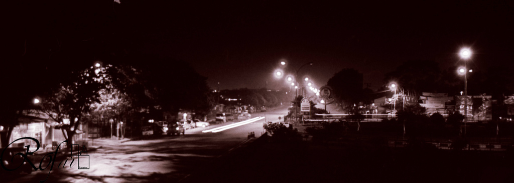 Bunderan cibiru in 2002